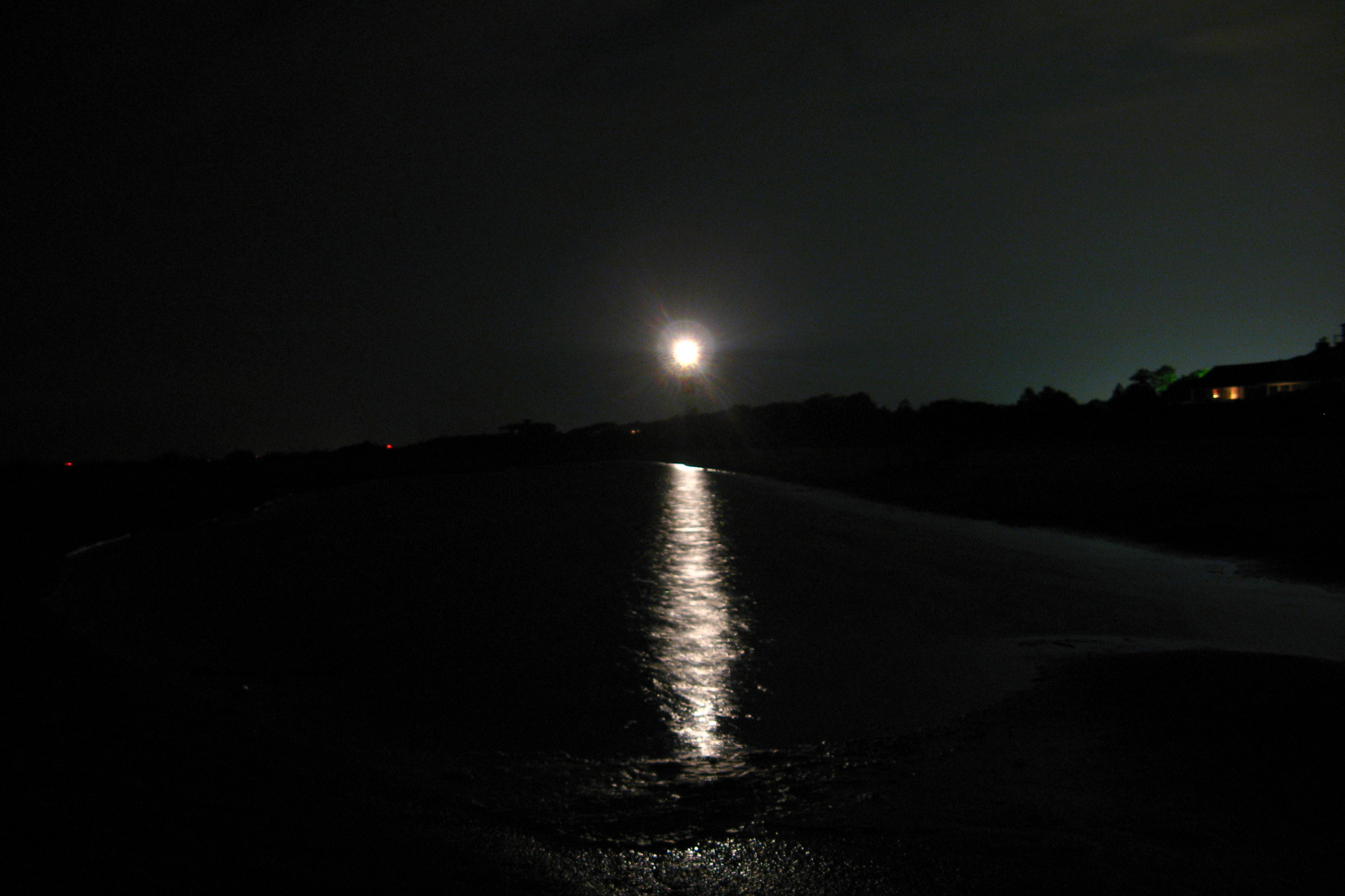 Sullivan's Island Lighthouse viewed from the beach during high tide. 10:50 pm.